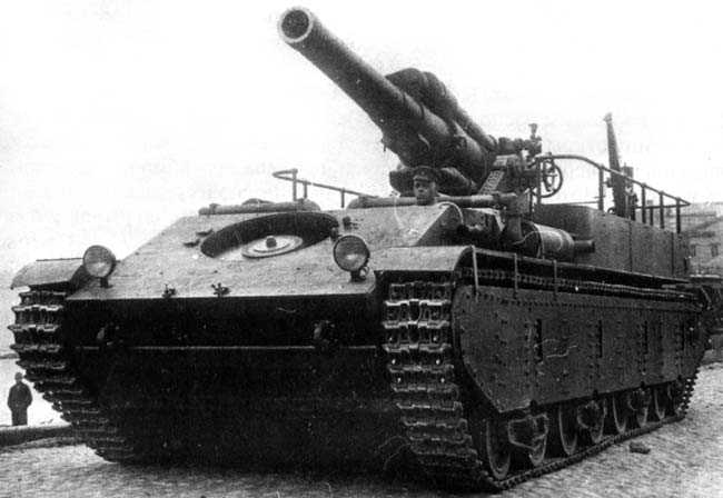 The prototype of SU-14 in trial, 1934